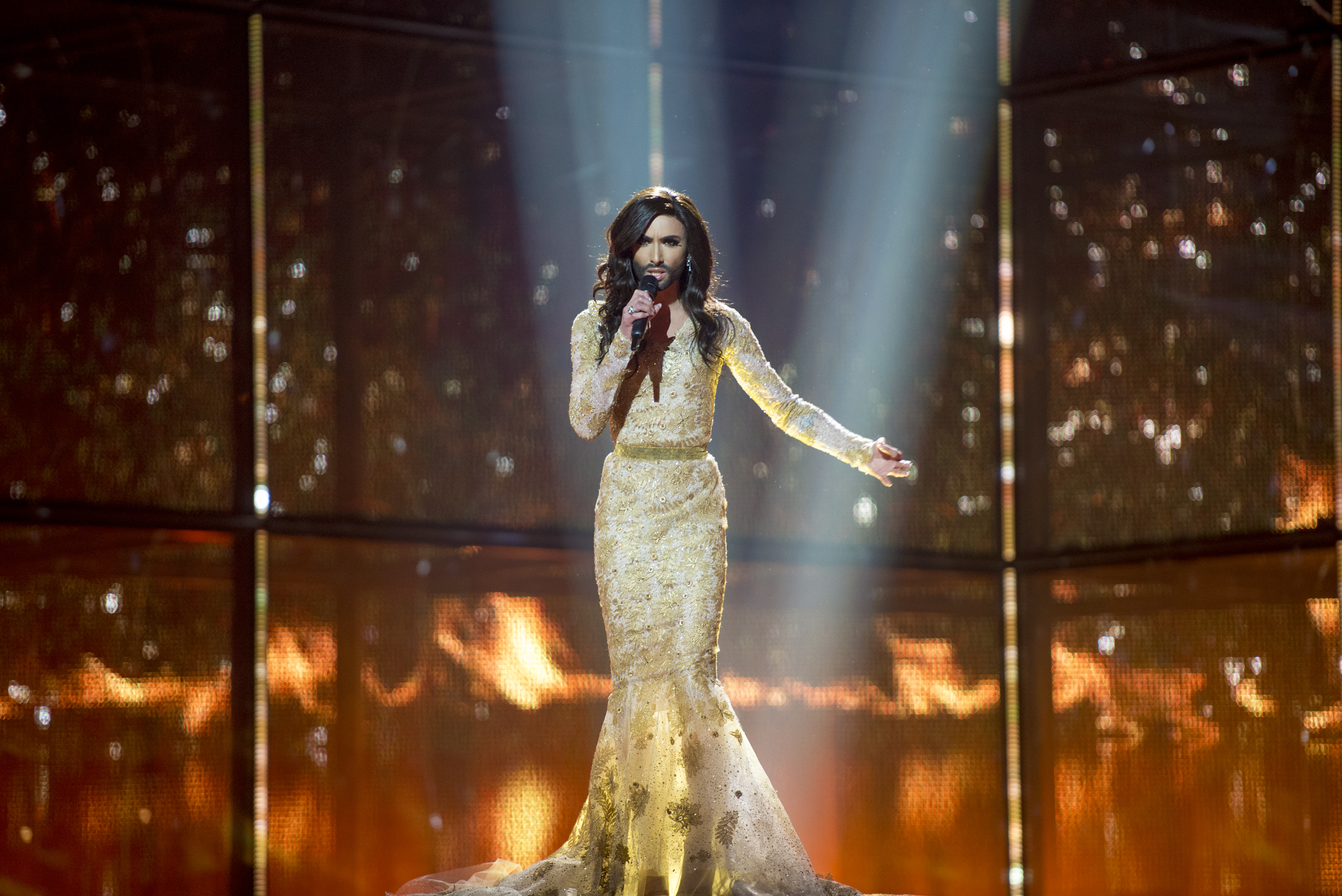 Conchita Wurst representing Austria with the song "Rise Like a Phoenix" during the first dress rehearsal of the second semi final of the Eurovision Song Contest 2014 Copenhagen. (Help translate this text)